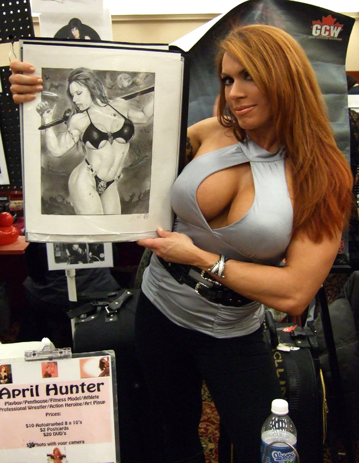 April Hunter at a GCW wrestling show